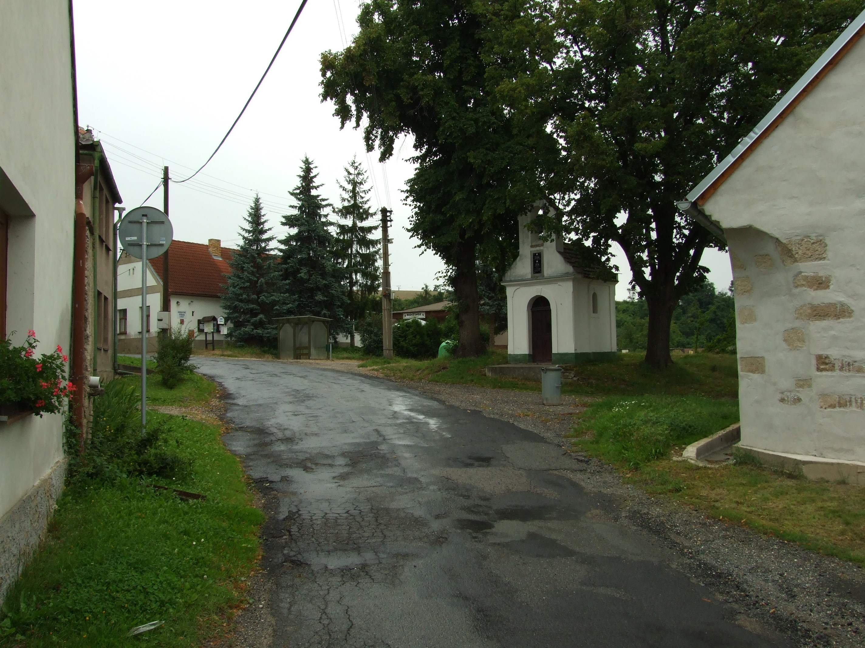 Common in Líský, Central Bohemian Region, CZ